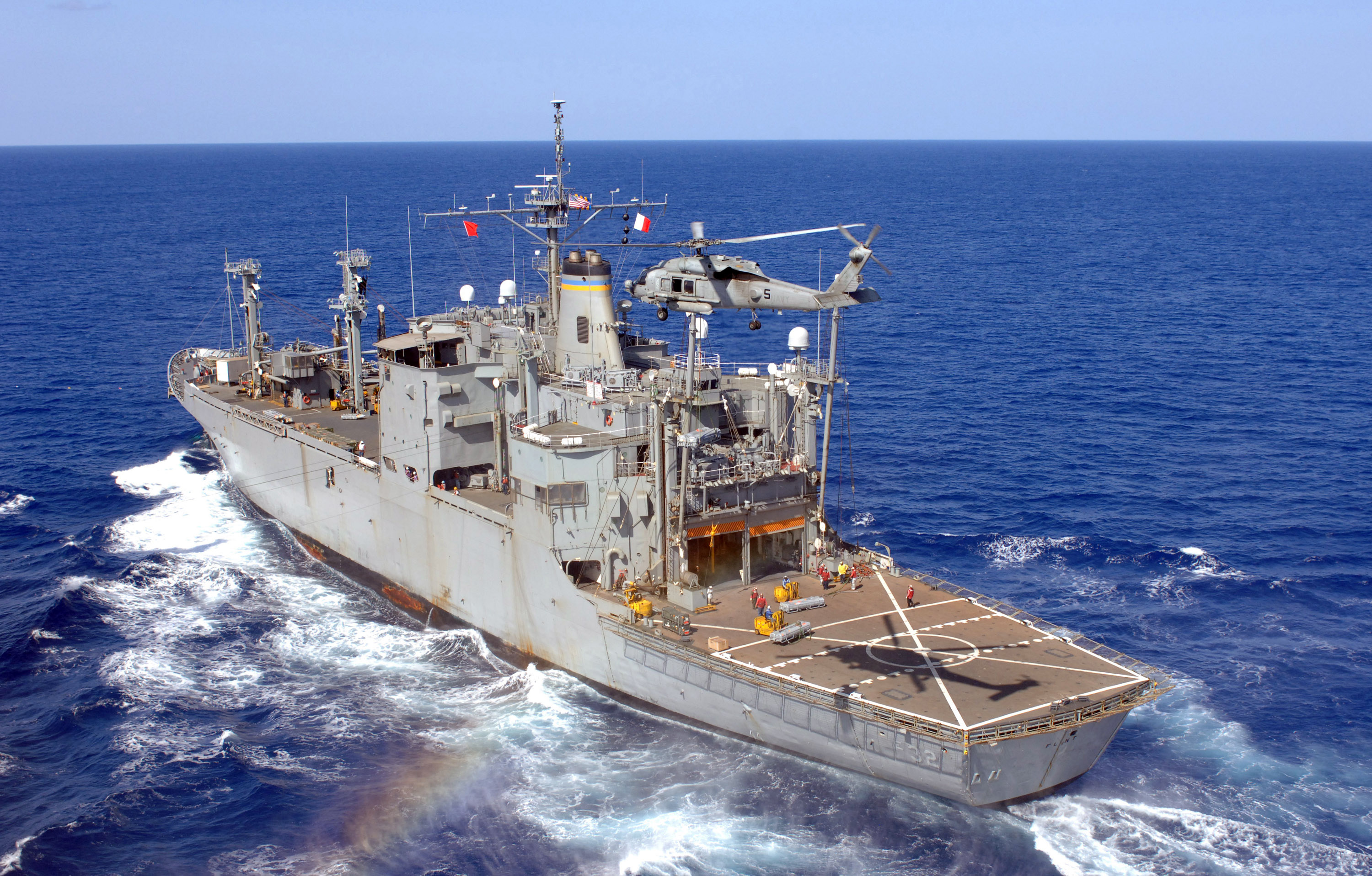 The USNS Flint (T-AE-32). At the time of the photo, the Flint was a member of the USS Ronald Reagan Carrier Group. The helicopter clearing the deck of the Flint belongs to Helicopter Antisubmarine Squadron Four.